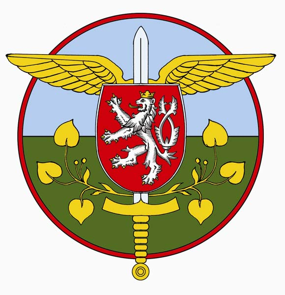 The national ensign of the Army (Joint Forces) of the Czech Republic.